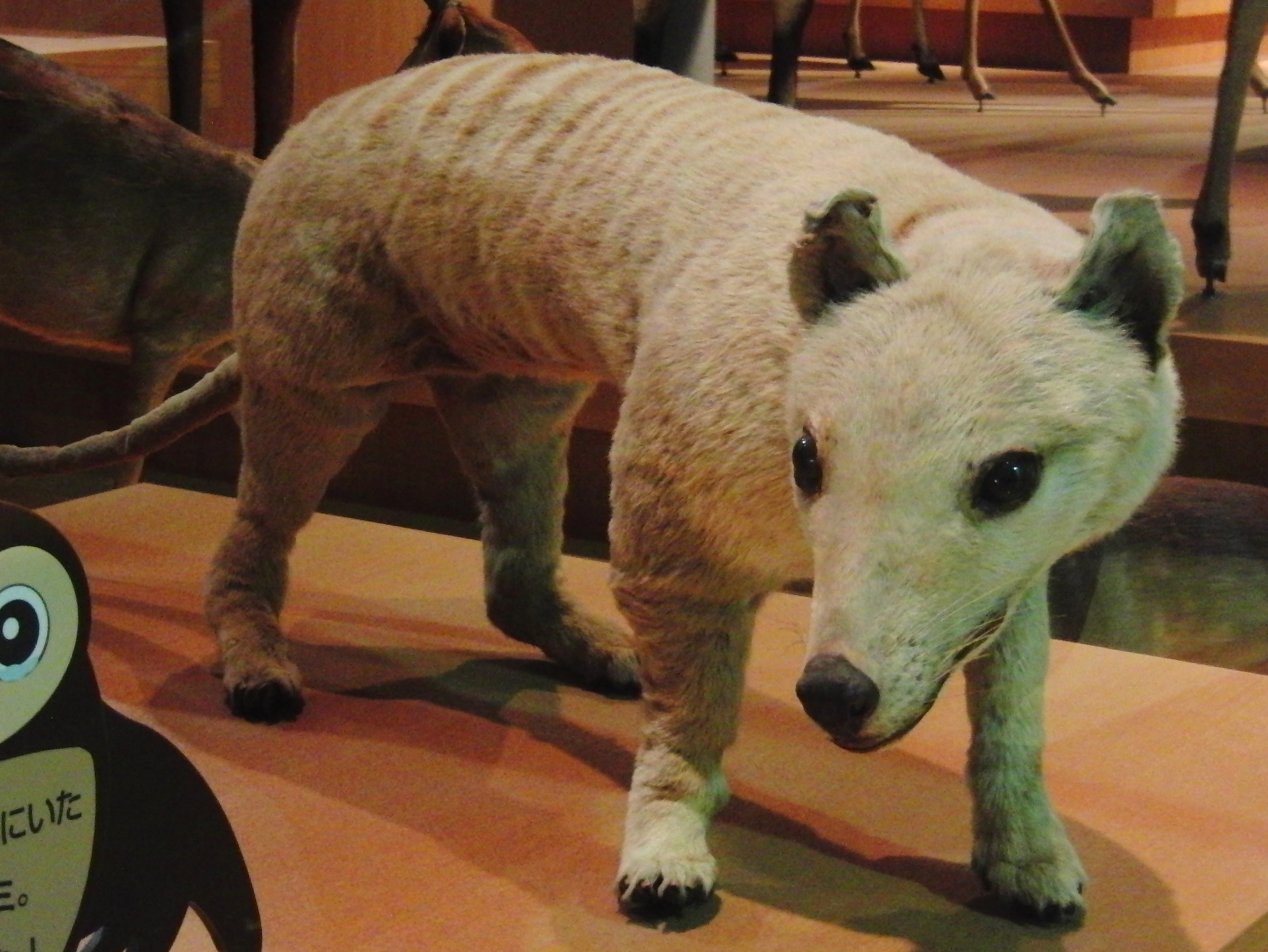 Stuffed specimen of Thylacine (Tasmanian Tiger, Tasmanian Wolf, Thylacinus cynocephalus). Exhibit in the National Museum of Nature and Science, Tokyo, Japan.